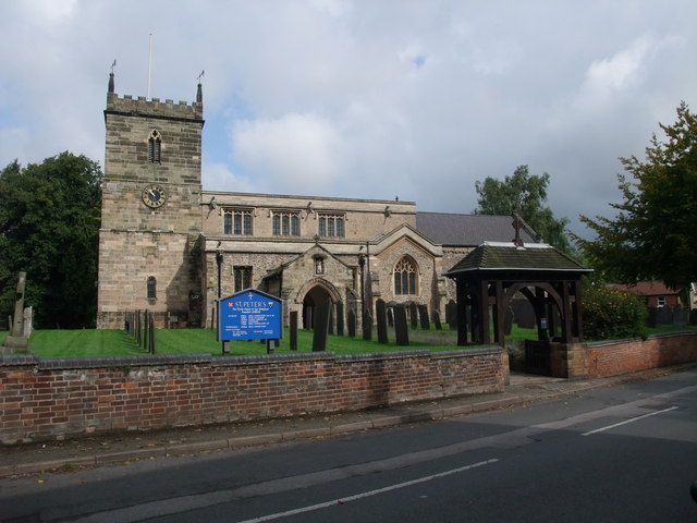 Church of St Peter, East Bridgford For details & history